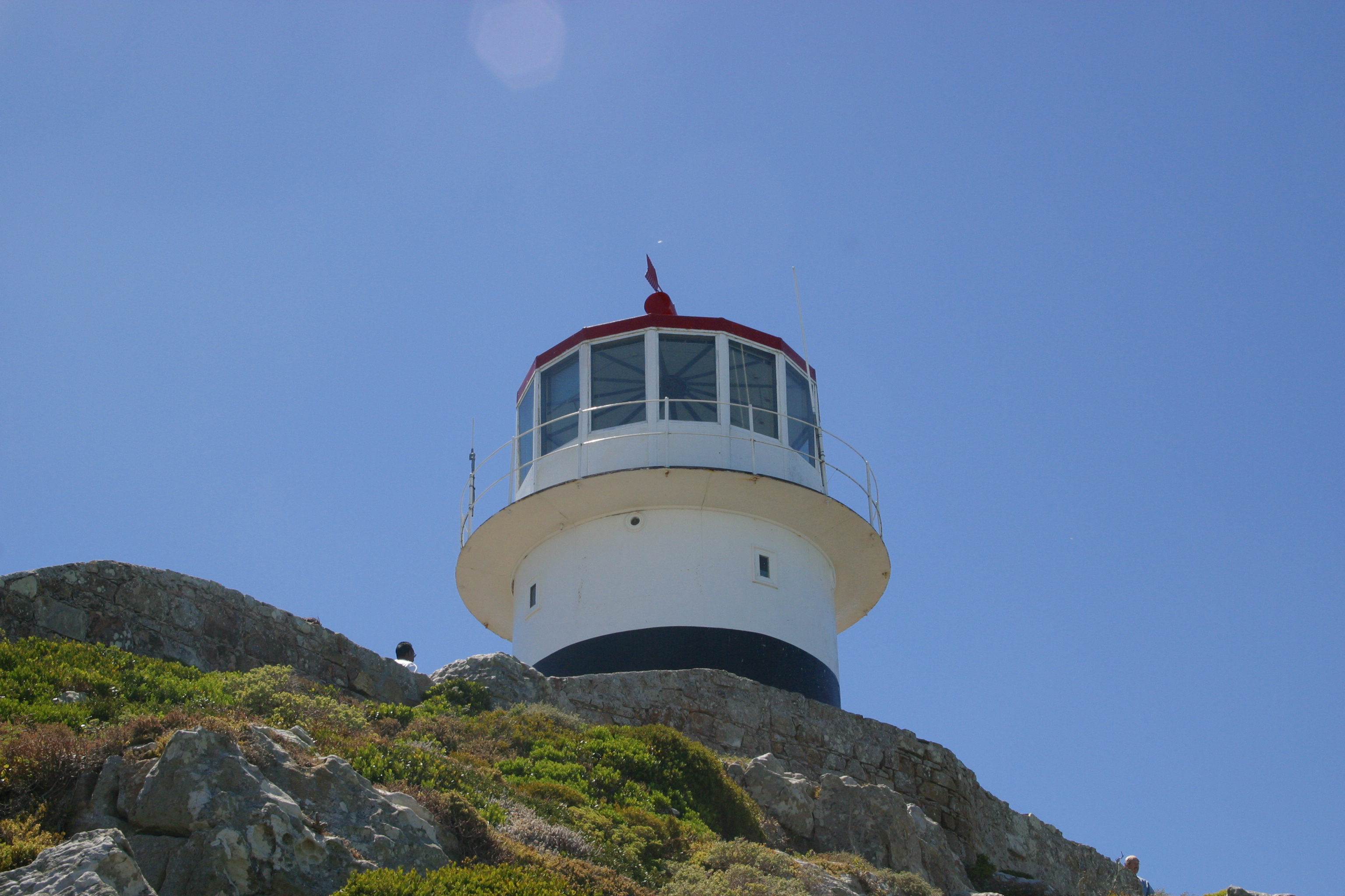 The old lighthouse at Cape Point in SOuth AfricaIMG_1779